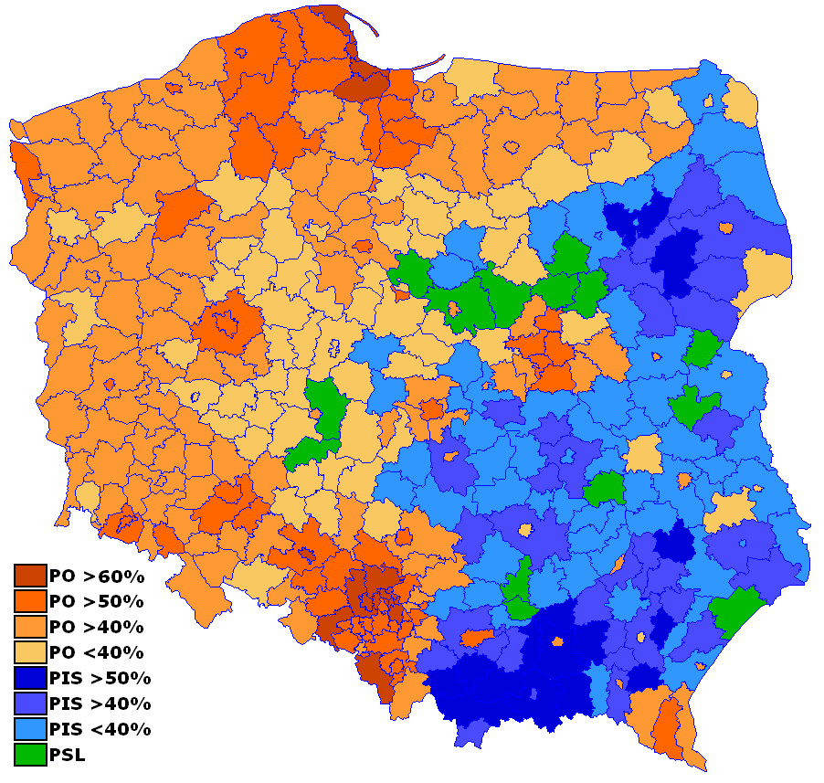 European Parliament election, 2009 (Poland) - results by counties